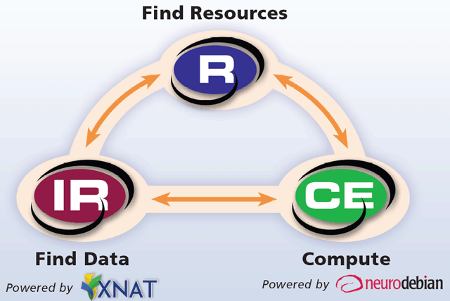 Three services offered through NITRC